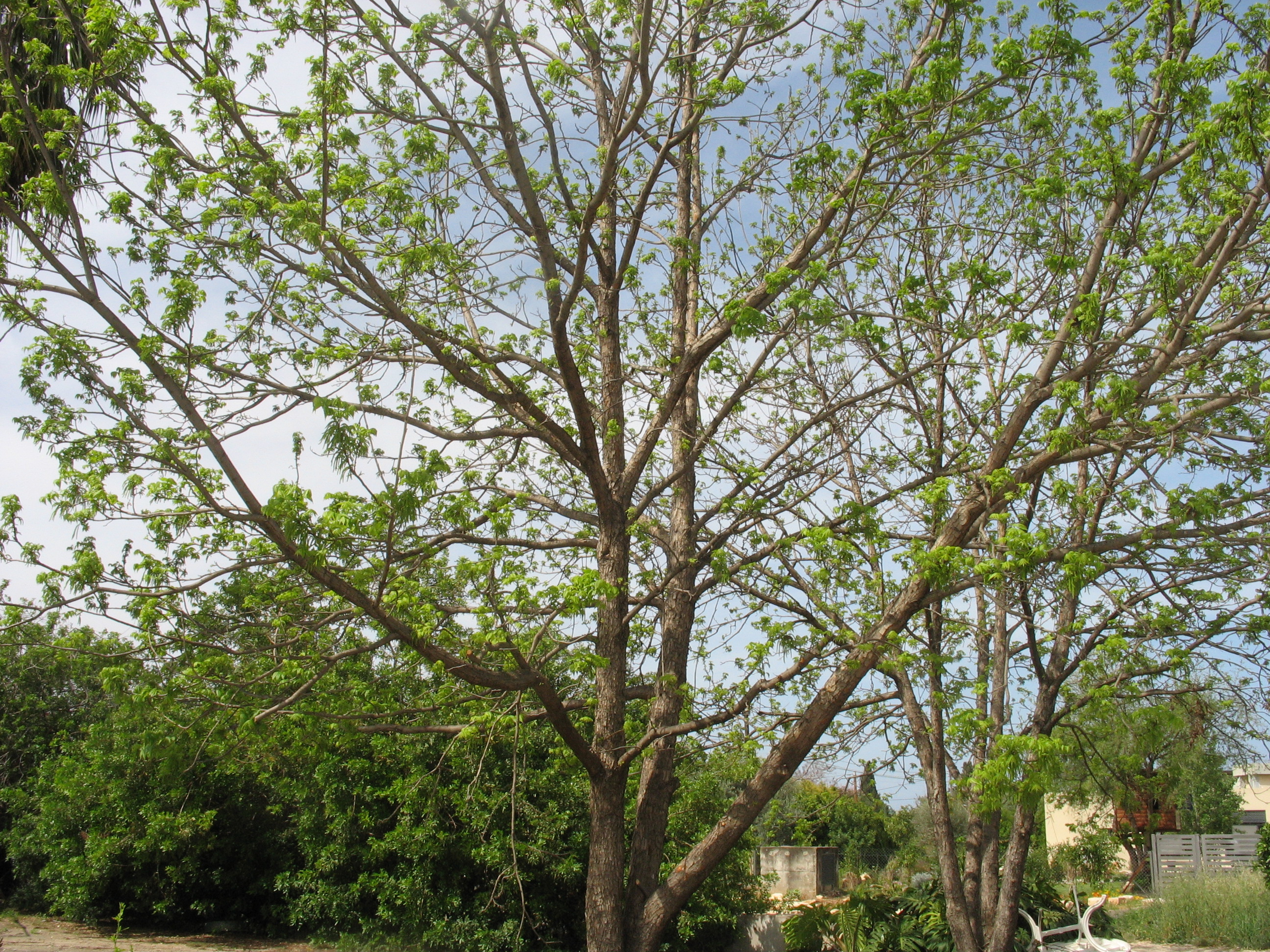 A Pecan tree taken in Betzet Israel